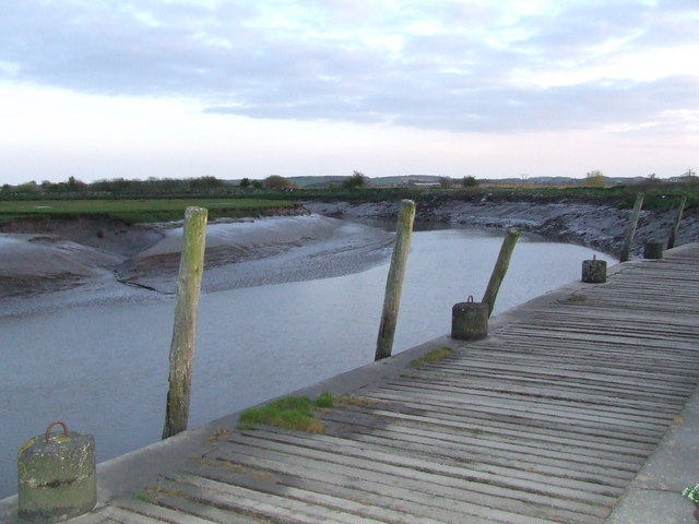 River Bladnoch & Wigtown 'harbour' A view looking south-west up the estuary of the River Bladnoch taken from the walkway of the one-time harbour at Wigtown.